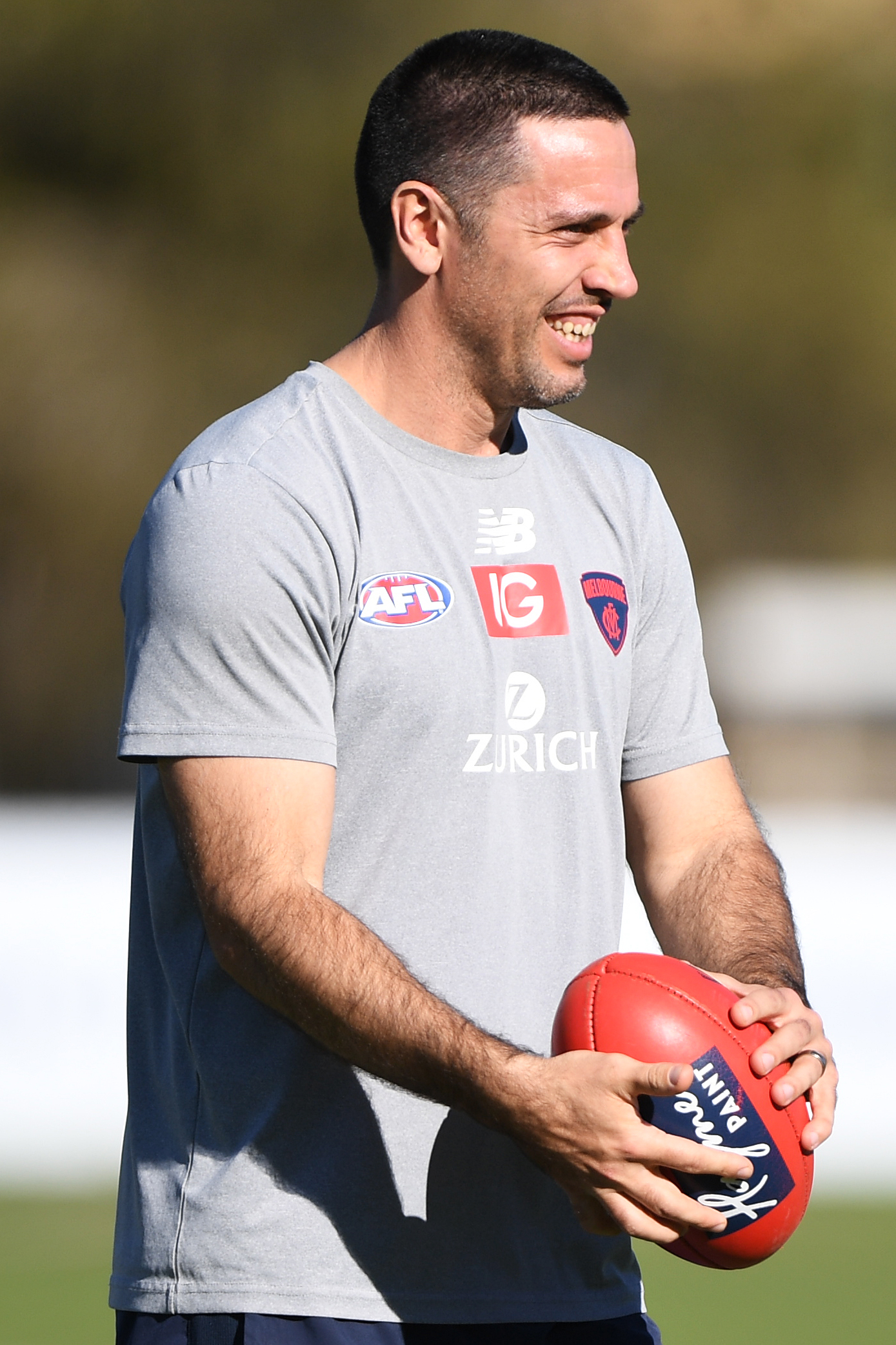 Troy Chaplin of Melbourne during Melbourne training at Traeger Park on Saturday, 20 July 2019 in Alice Springs, Northern Territory.